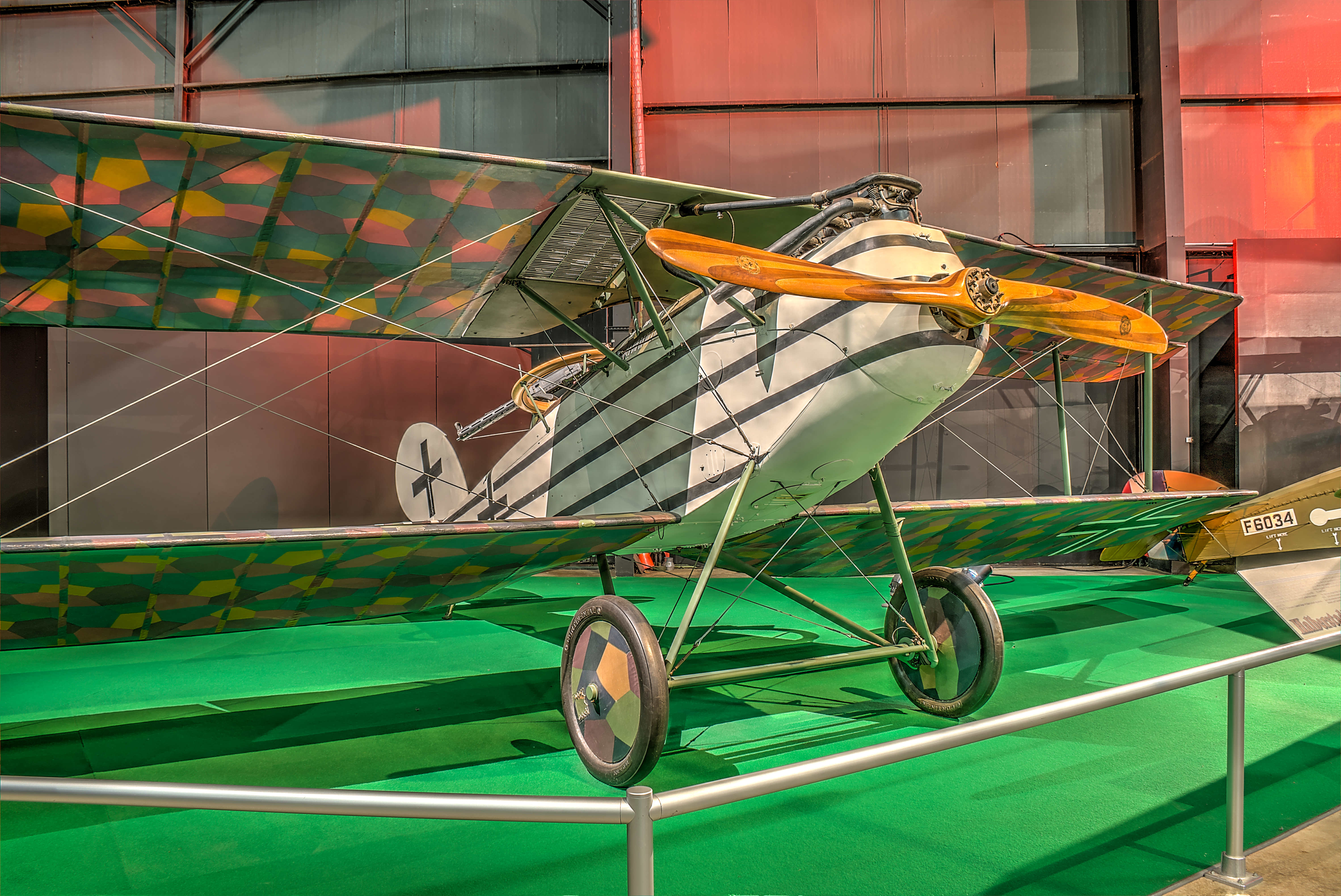 Halberstadt CL.IV at the National Museum of the USAF